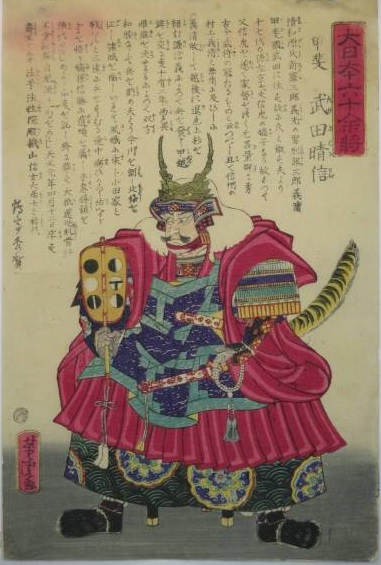 Kai, Takeda Harunobu, from the series Sixty-odd Famous Generals of Japan, woodblock print